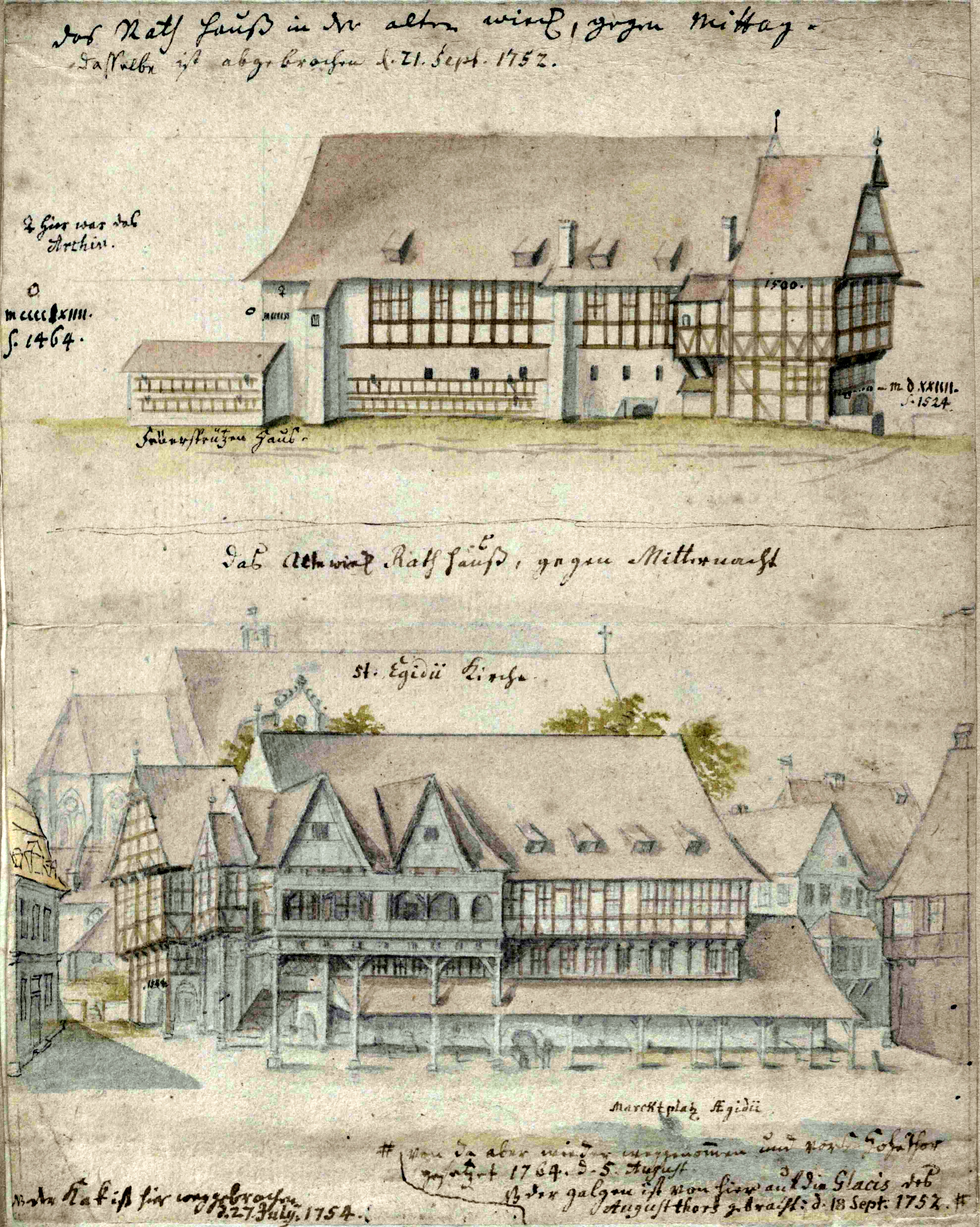 Braunschweig, Germany: Altewiek Town Hall.